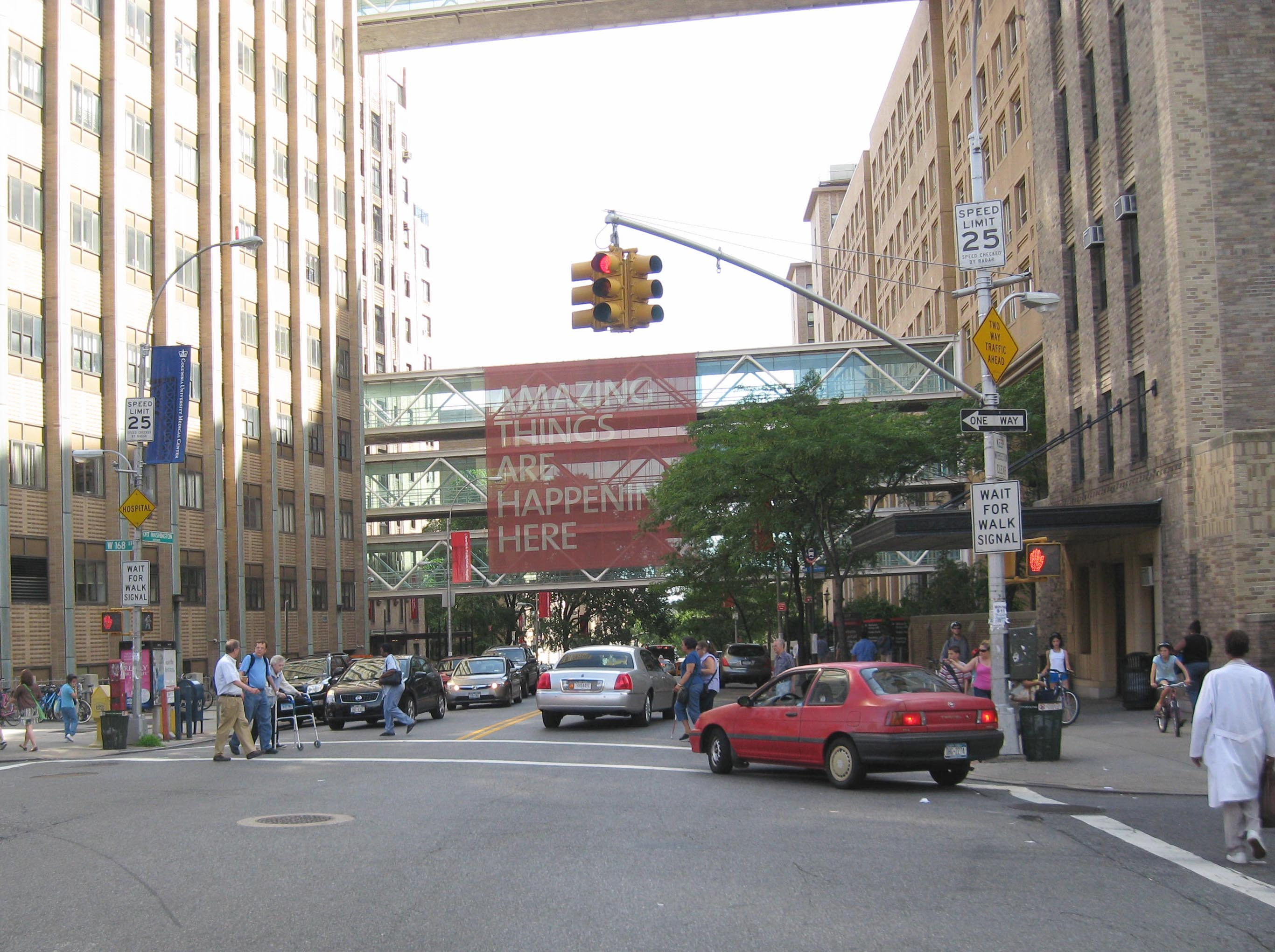 Looking south at skyways of Columbia University Medical Center crossing Fort Washington Avenue (Manhattan) on a sunny early afternoon. ZIP 10032.